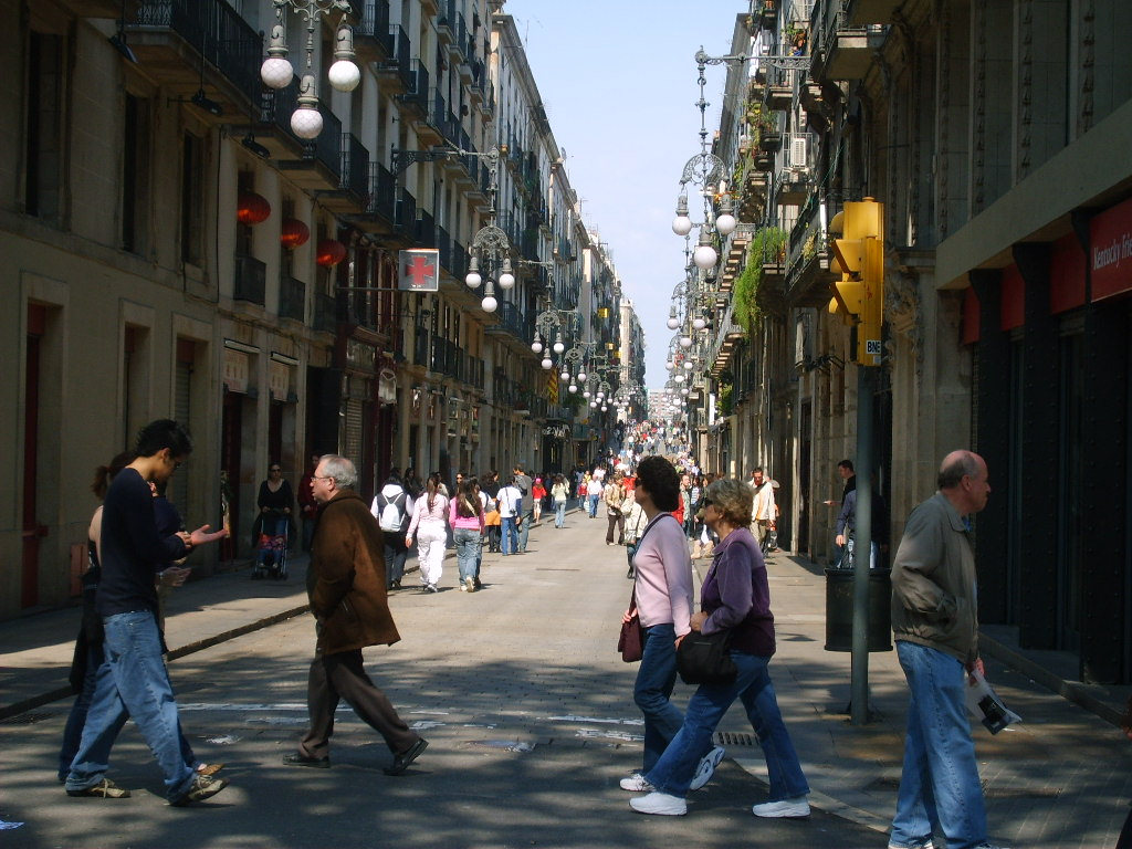 Carrer de Ferran, the street that goes from La Rambla to Pl. Saint Jaume (Barri Gotico), Barcelona, Catalunya, Spain